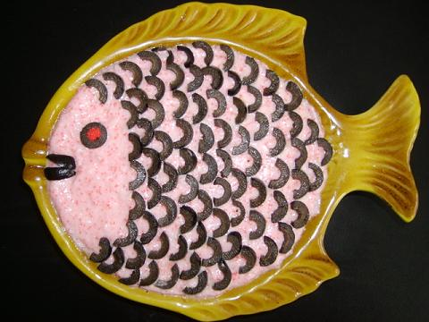 Picture taken by myself